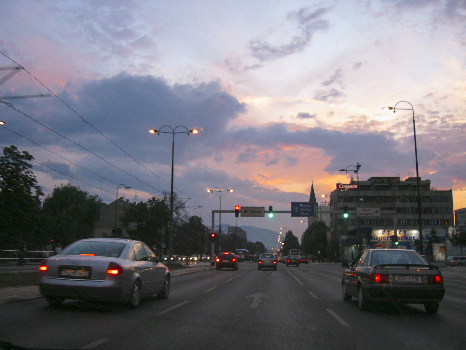 Ulica Zmaja od Bosne, Sarajevo Charming sunset